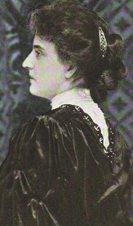 A white woman in profile. She is wearing a high-necked white blouse and a dark over dress with puffy sleeves. Her hair is back and caught in a visible hair ornament behind her head.